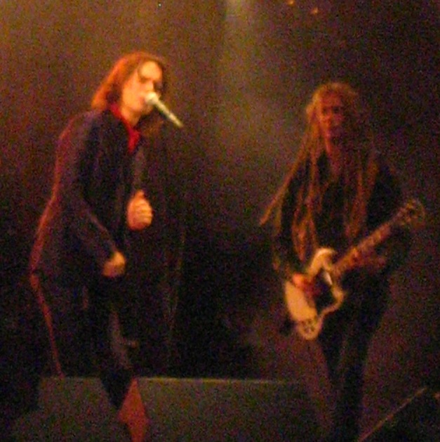 Finnish rock band HIM